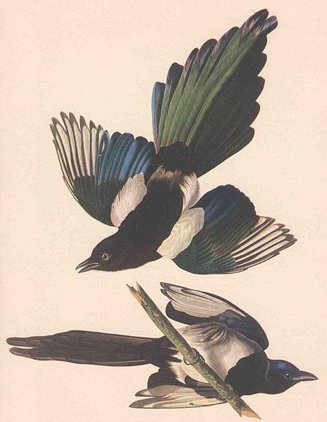 Pica hudsonia (then included within P. pica)